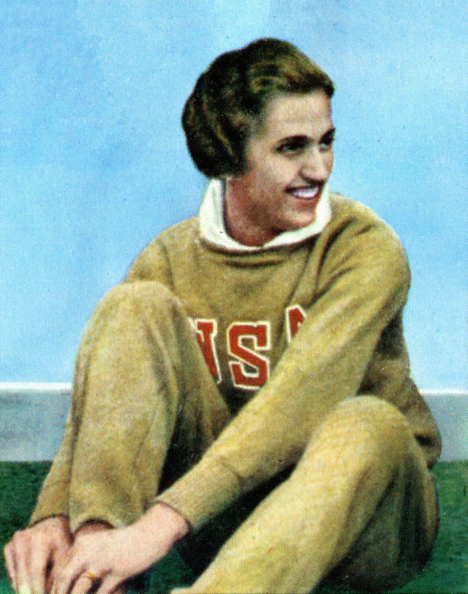 CAMPIONI DELLO SPORT 1968/69-n.453 - H. STEPHENS - USA